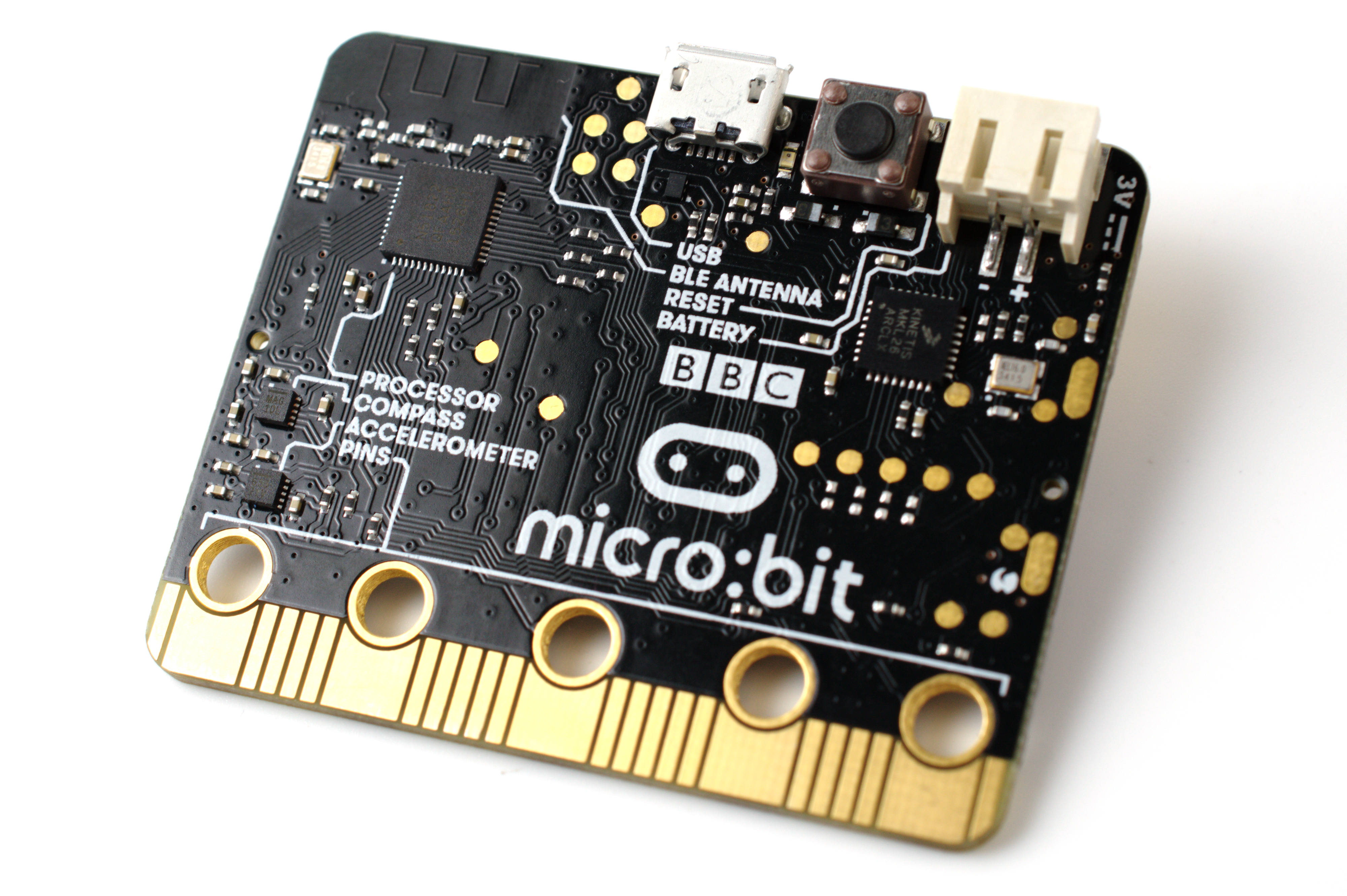 The BBC micro:bit educational microcontroller platform, provided as a press sample by the BBC.